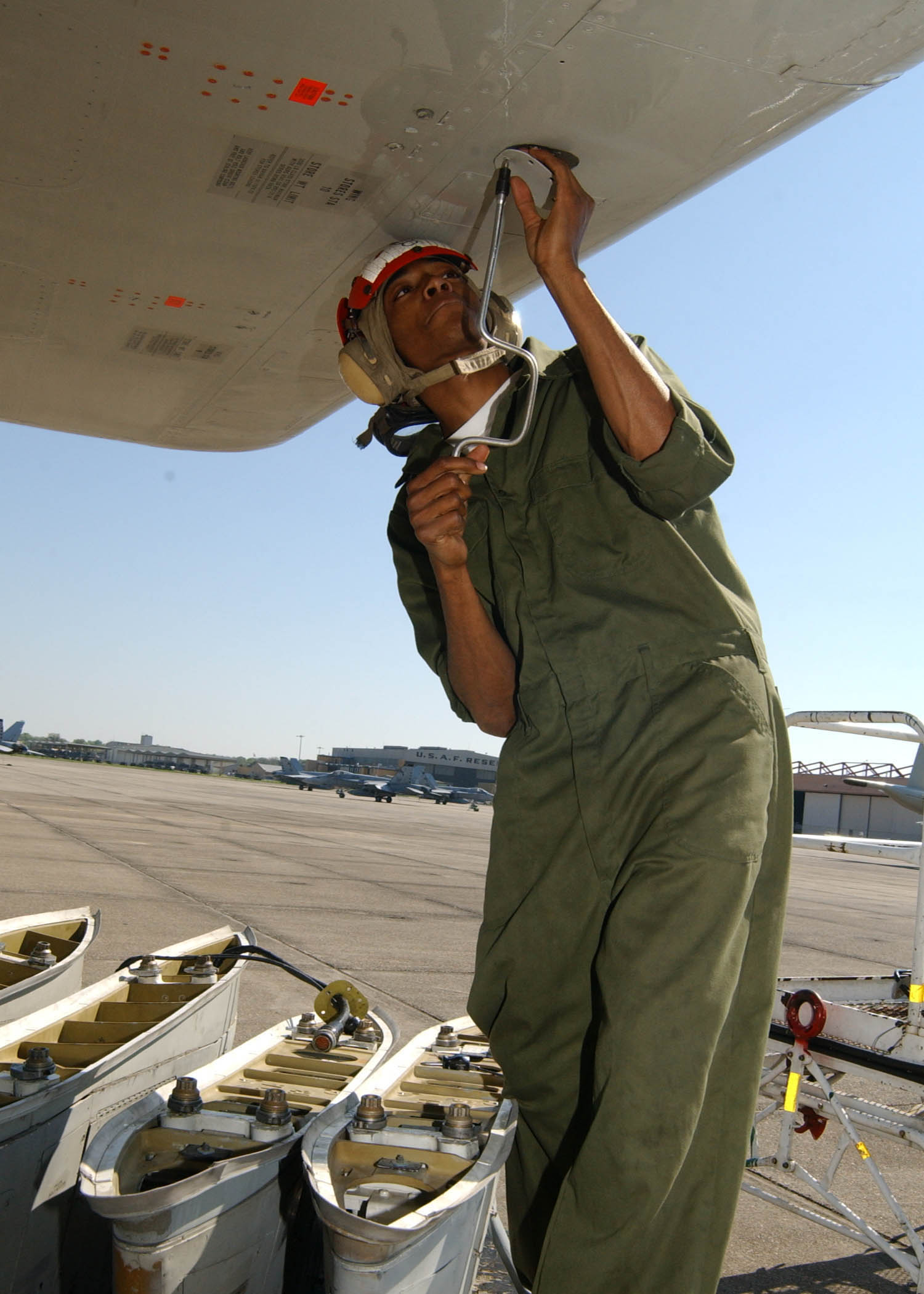 Naval Air Station Joint Reserve Base, New Orleans, La. (Mar 22, 2003) -- Aviation Ordnanceman Airman Tyrone D. Evans is removing screws and plugs on a P-3C Orion in preparation to loading bomb racks on the aircraft. Airman Evans is from Mount Pleasant, Texas and assigned to the “Crawfishers” of Patrol Squadron Ninety-Four (VP-94) at Naval Air Station Joint Reserve Base, New Orleans. He's originally from Mount Pleasant, Texas. U.S. Navy photo by Photographer’s Mate Airman Mark Gleason. (RELEASED)